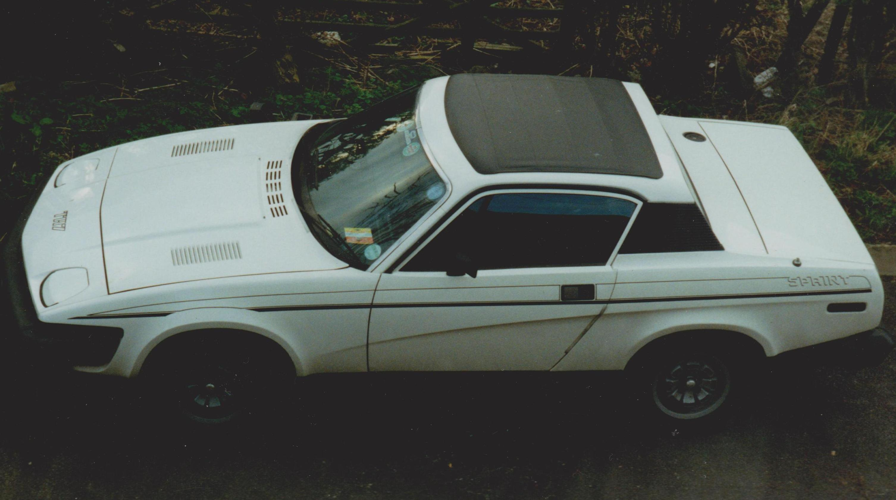 TR7 Sprint from side